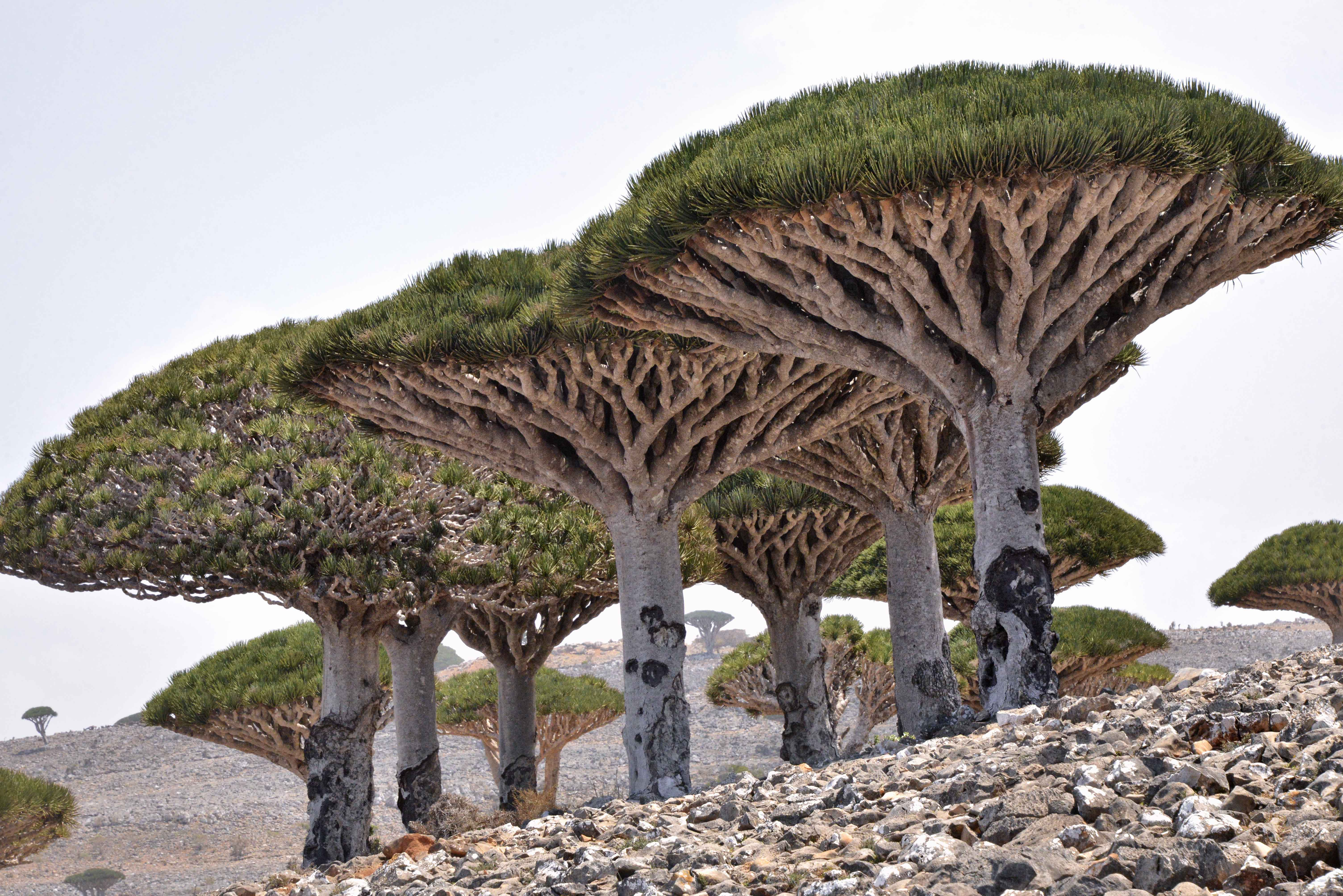 Dragon's Blood Tree (Dracaena cinnabari) — endemic to/on Socotra island, Yemen.